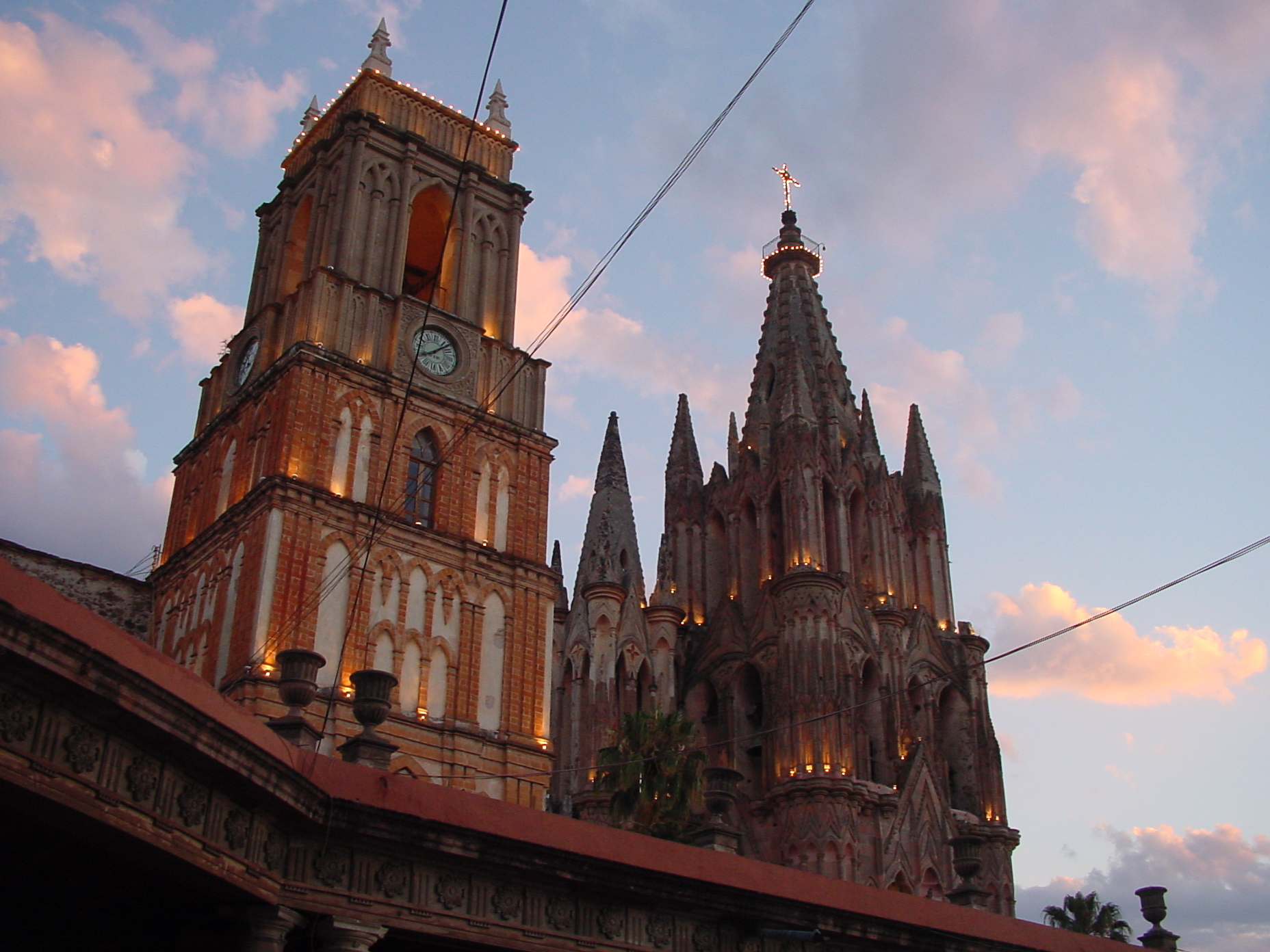 San Miguel de Allende main Parroquia de San Miguel Arcangel